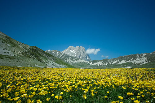 Yellow flowers in Campoimperatore, May 2007 by loricaman78, ShareAlike